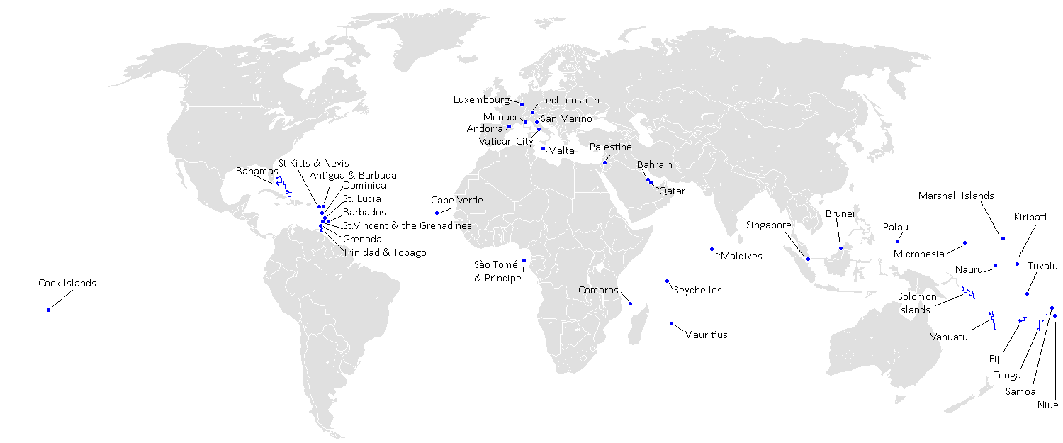 Key showing names of small countries in Image:BlankMap-World-v5.png for reference. Note that dots show some sovereign countries larger than they actually are, for the sake of clarity, while some other non-sovereign territories are omitted.